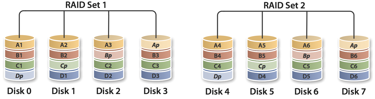 RAID-50 example consisting of two sets of four drives each